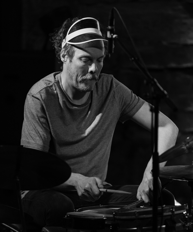 Ståle Liavik Solberg in a concert with Særingfest in Smeltehytta. The concert was part of Kongsberg Jazzfestival and took place on 05. July 2019 in Kongsberg. Lineup:Ikue Mori (electronic)Jasper Stadhouders (guitar)Ståle Liavik Solberg (percussion)Barre Phillips (double bass)Jaimie Branch (trumpet)Hamid Drake (drums)Rachel Musson (saxophone)Kjetil Møster (saxophone)Ingebrigt Håker Flaten (double bass)Dag Erik Knedal Andersen (drums)